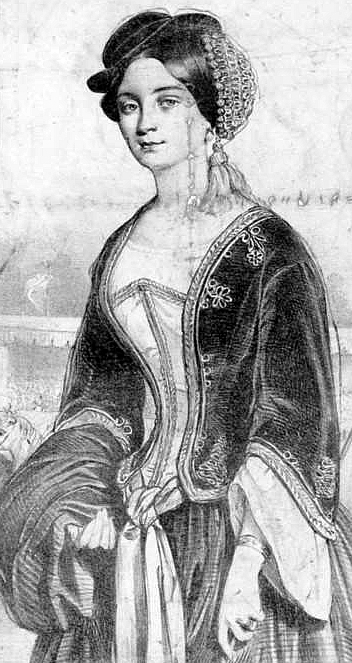 French opera singer Anne-Benoîte-Louise Lavoye (1823-1897).